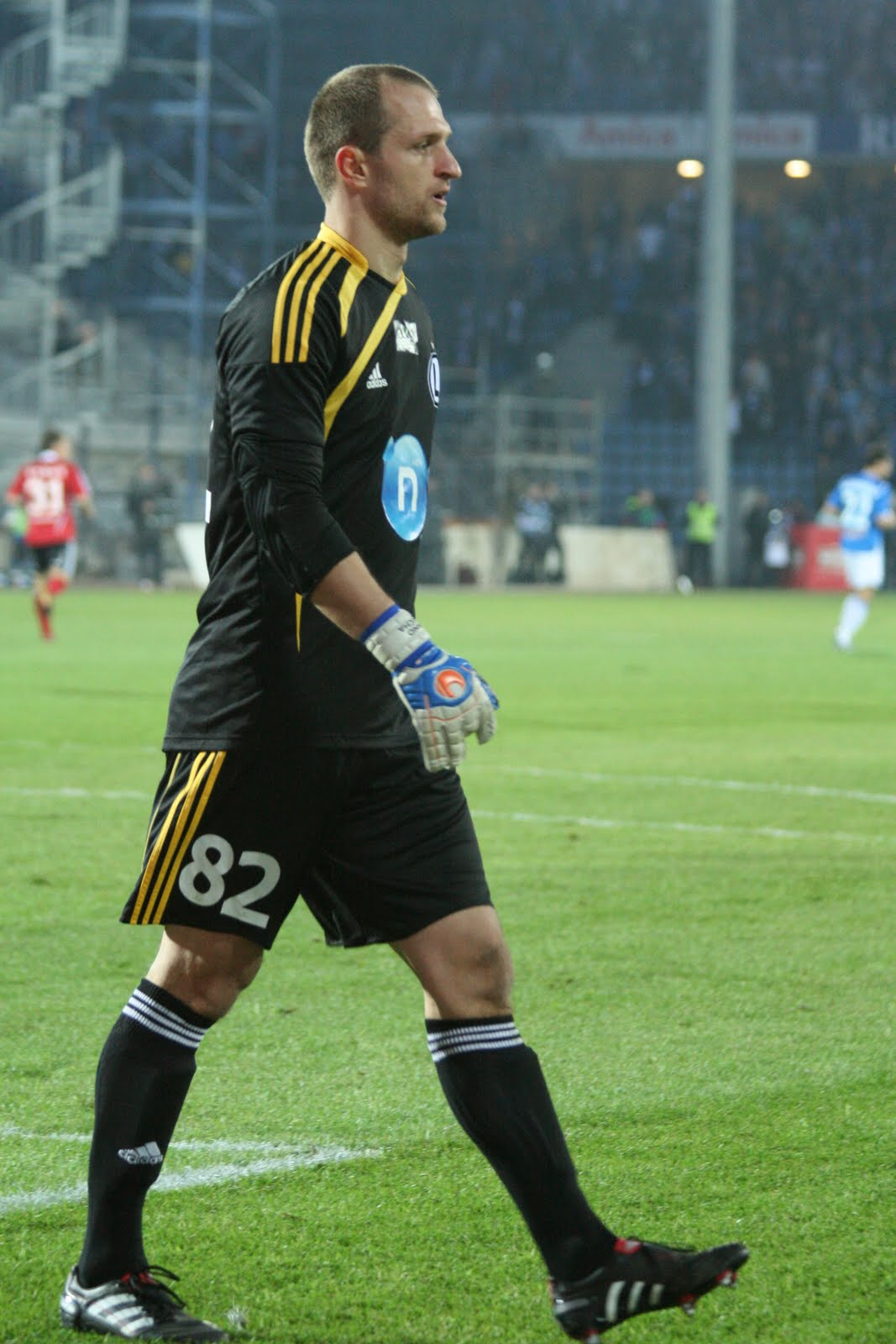 Slovak football player Ján Mucha